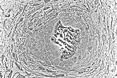 Light micrograph of a nidus lined by osteoblasts that are creating rudimentary bone tissue.